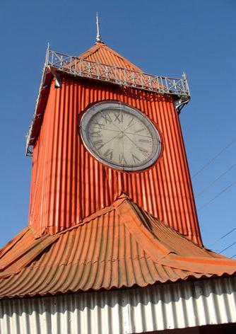 Ali Amzad's Watch, Sylhet, Bangladesh.